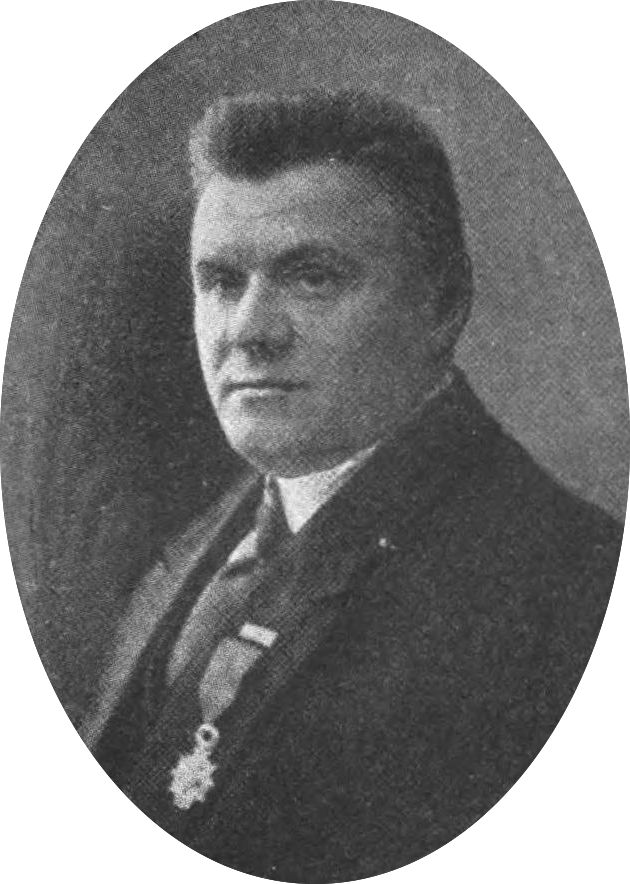 Portrait of Latvian president and dictator Karlis Ulmanis.